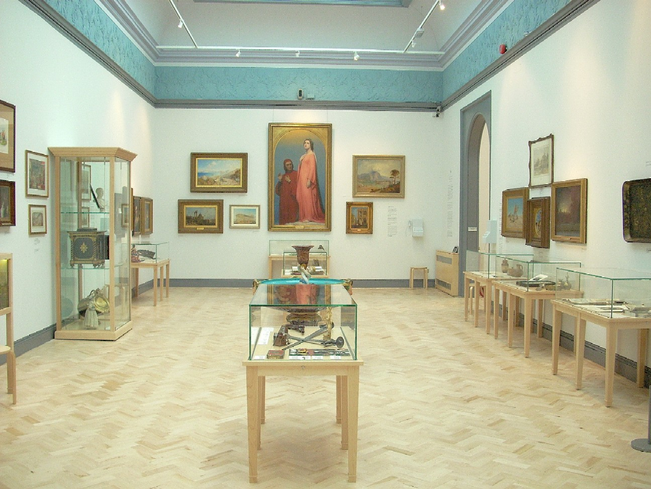 Victorian Room at Wolverhampton Art Gallery, Wolverhampton, England